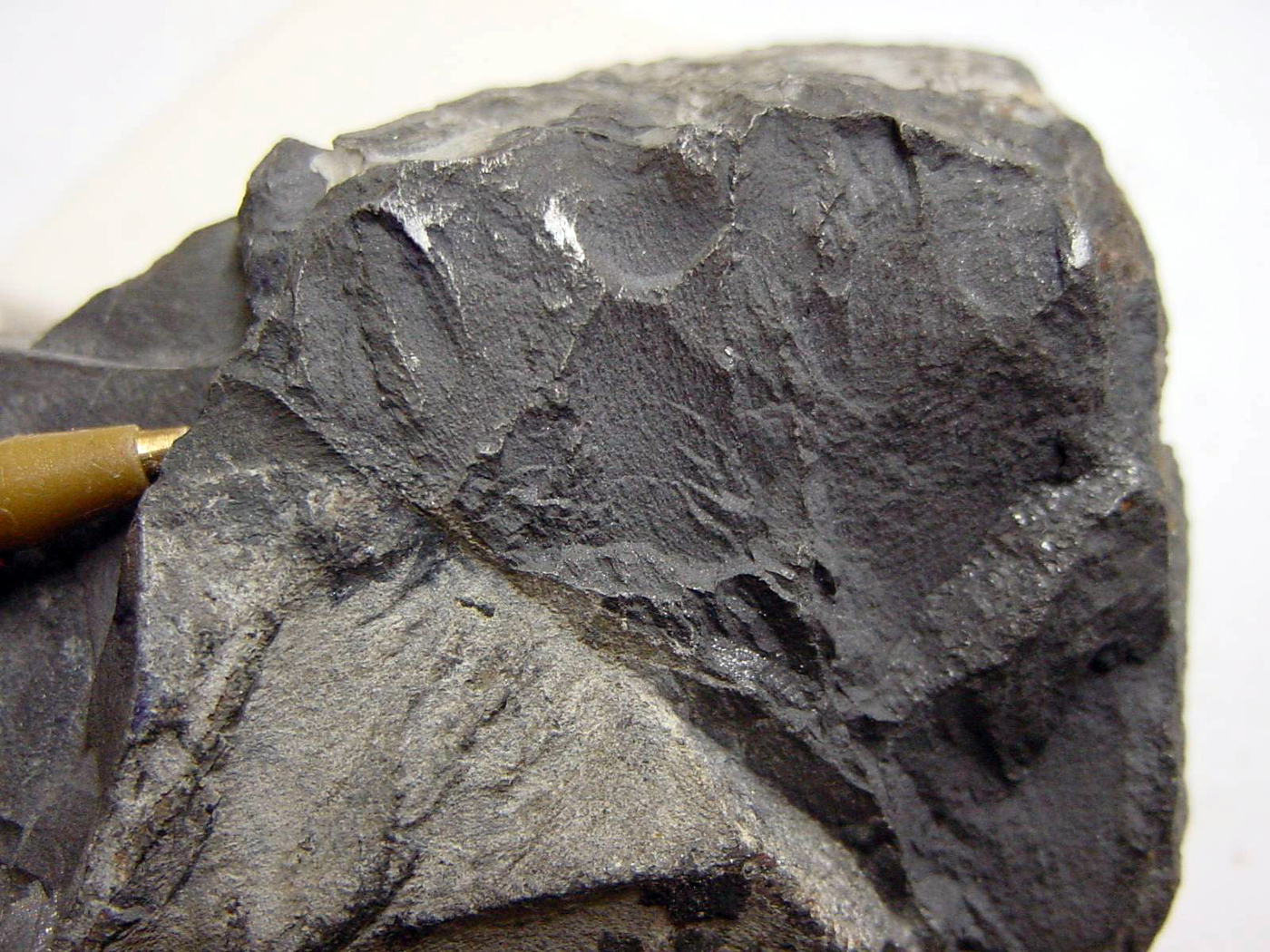 Allemontite (with Pen for scale) - Mineral collection of Brigham Young University Department of Geology, Provo, Utah - BYU index 1-3008a